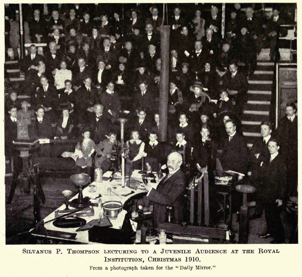 Silvanus Phillips Thompson FRS (19 June 1851 – 12 June 1916)